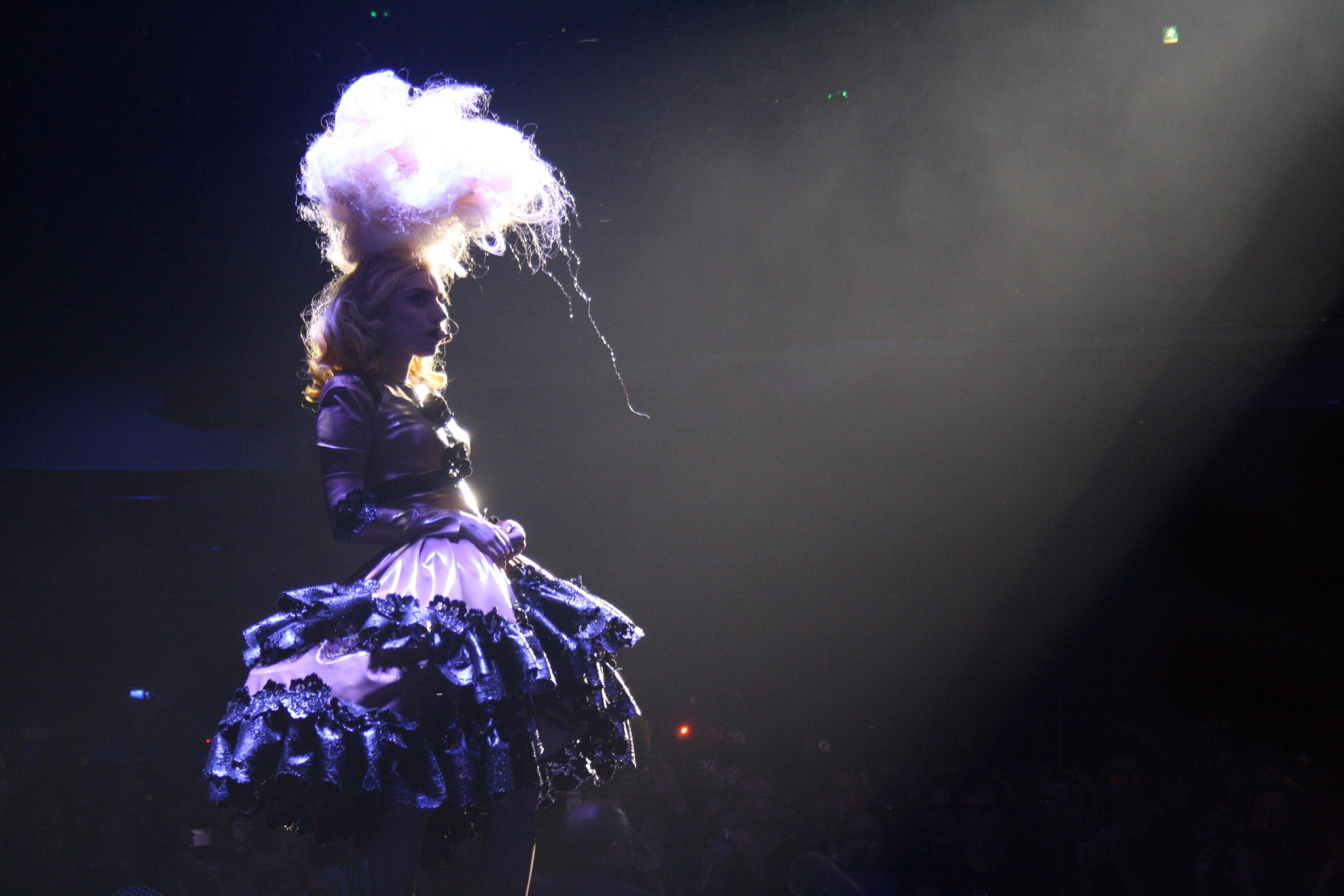 Lady Gaga performing "So Happy I Could Die" on The Monster Ball Tour.